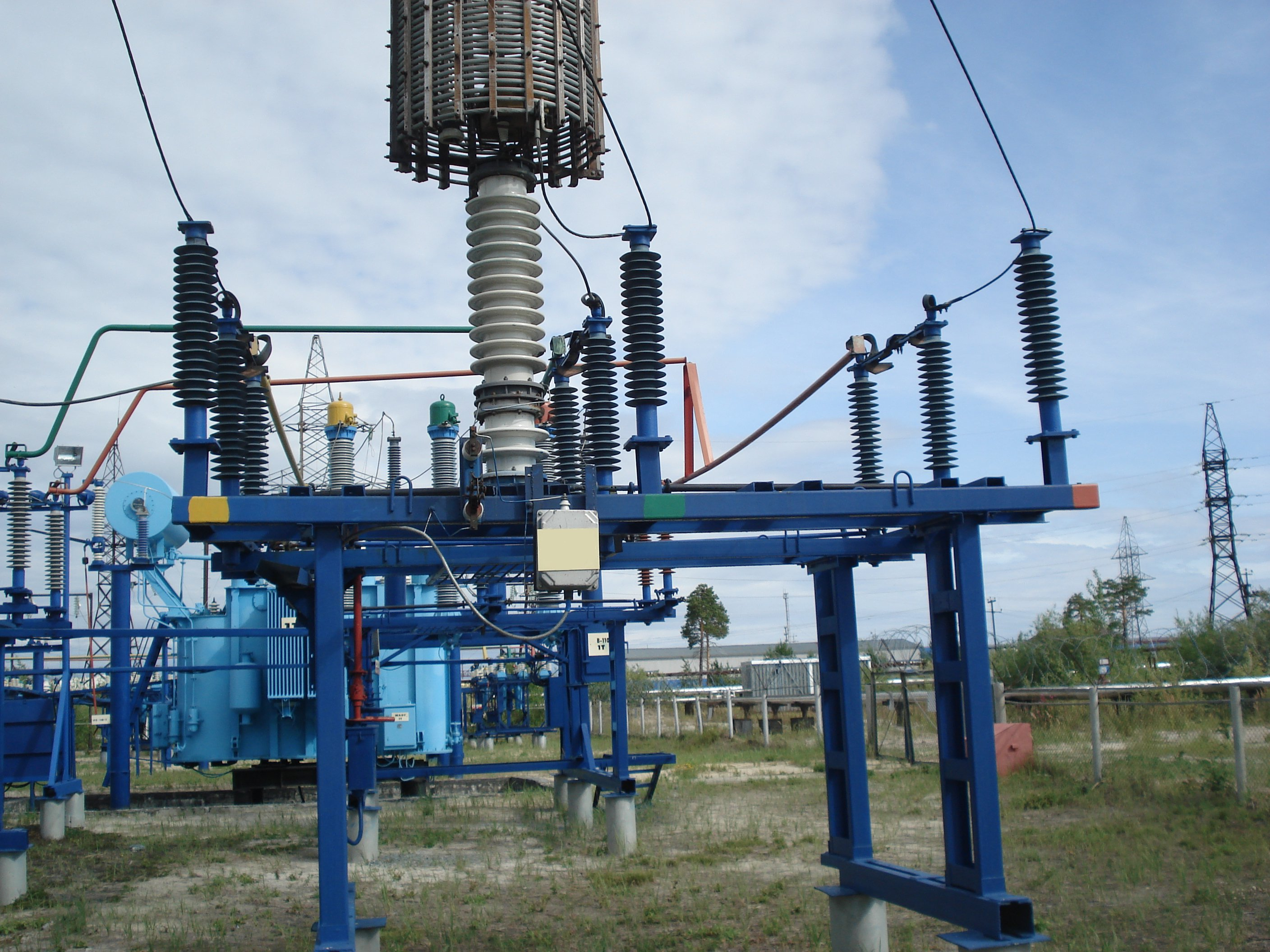 Power line terminal with PLC coupling device, 110 kV